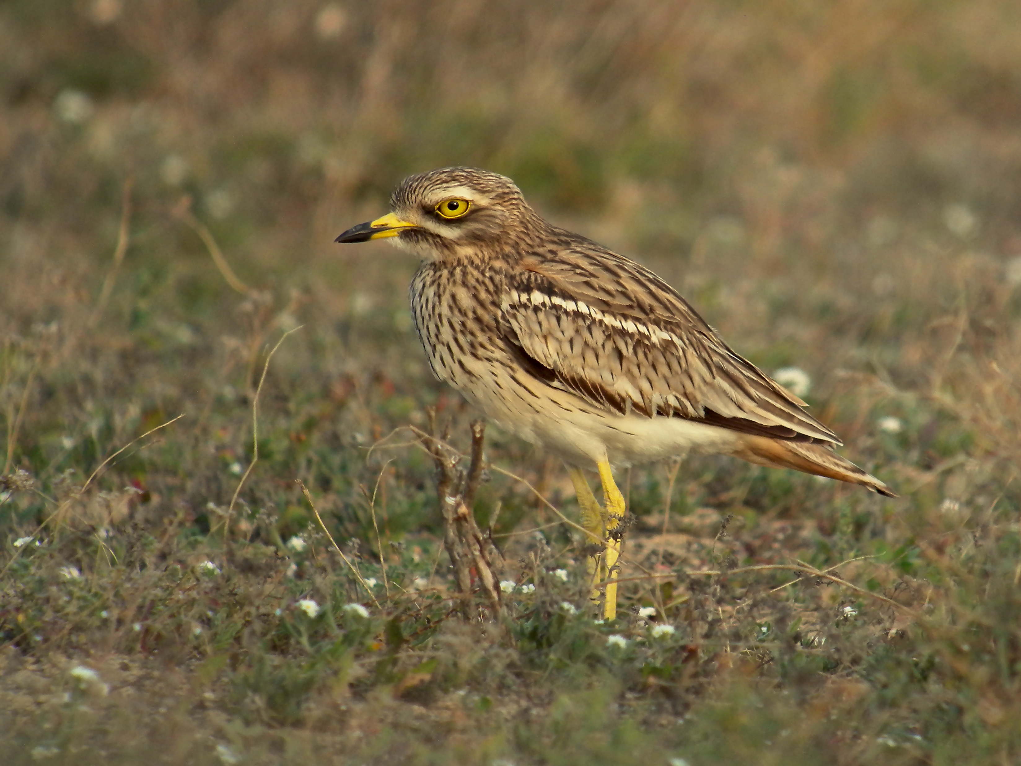 Eurasian Stone-curlew Burhinus oedicnemus insularum, Tao, Lanzarote, Canary Islands